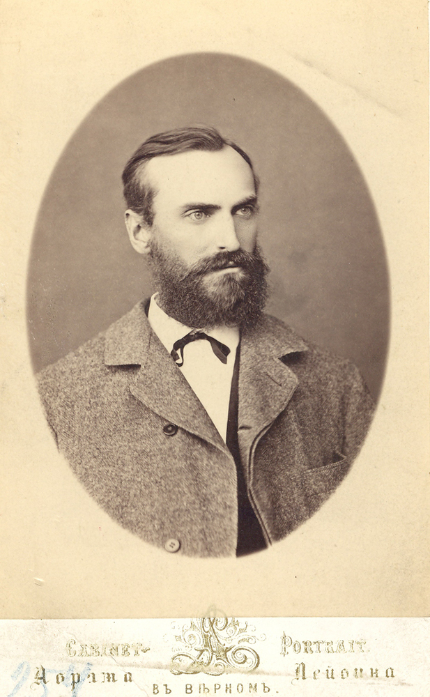 Nikolai Pantusov